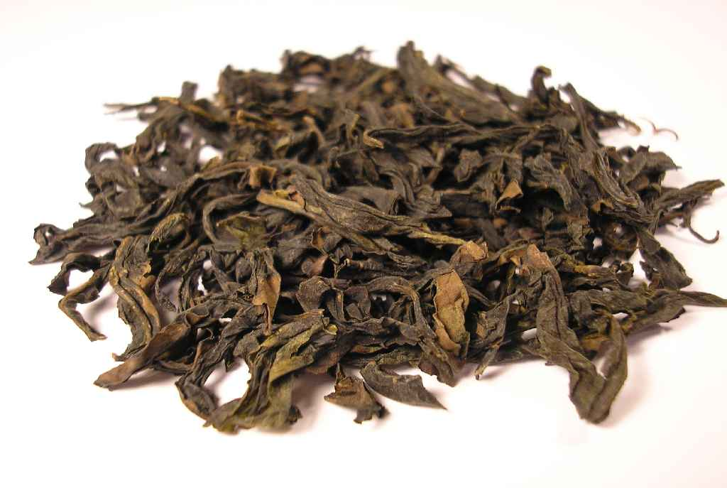 I made the picture.